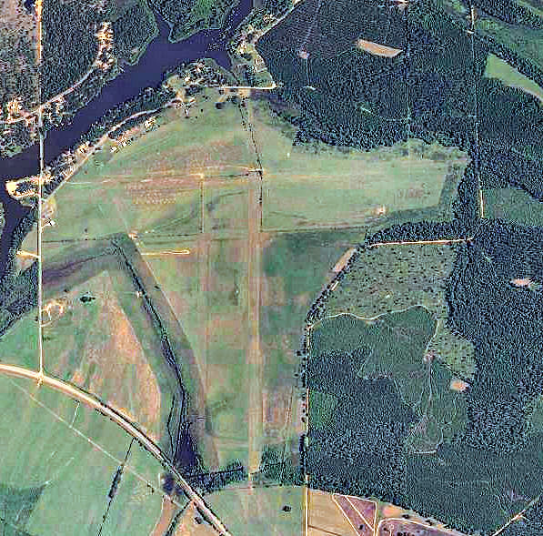 USGS digital orthophoto of Henderson Airport in Alabama